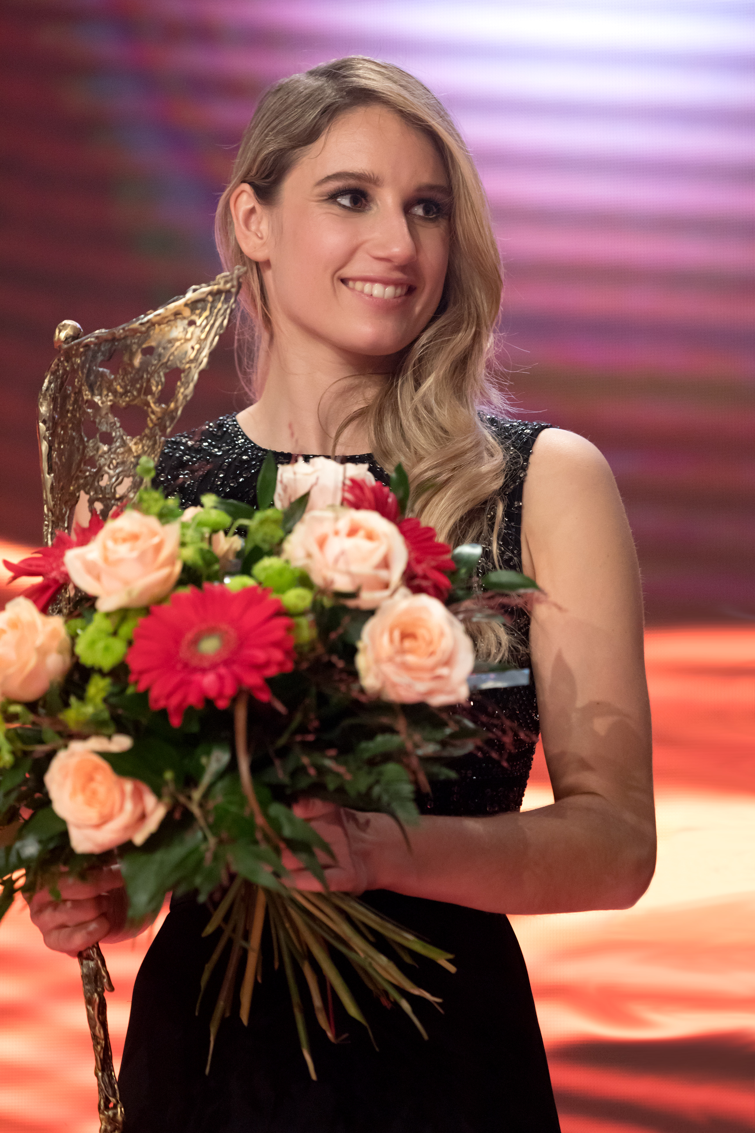 Anna Gasser, Austrian Sports Personality of the Year 2017, at Marx Halle (Sankt Marx, Vienna, Austria).